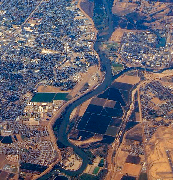 The Feather and Yuba Rivers confluence, near Yuba City, California.